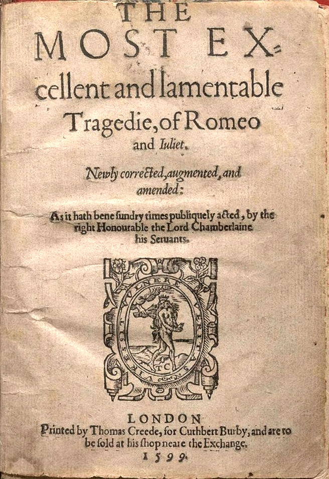 Title page of the second quarto edition (Q2) of William Shakespeare's play Romeo and Juliet printed by Thomas Creede in 1599.